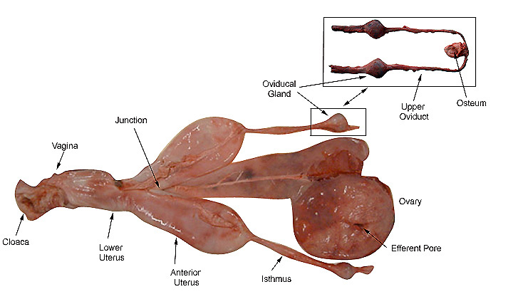 Reproductive system of a female porbeagle (Lamna nasus)